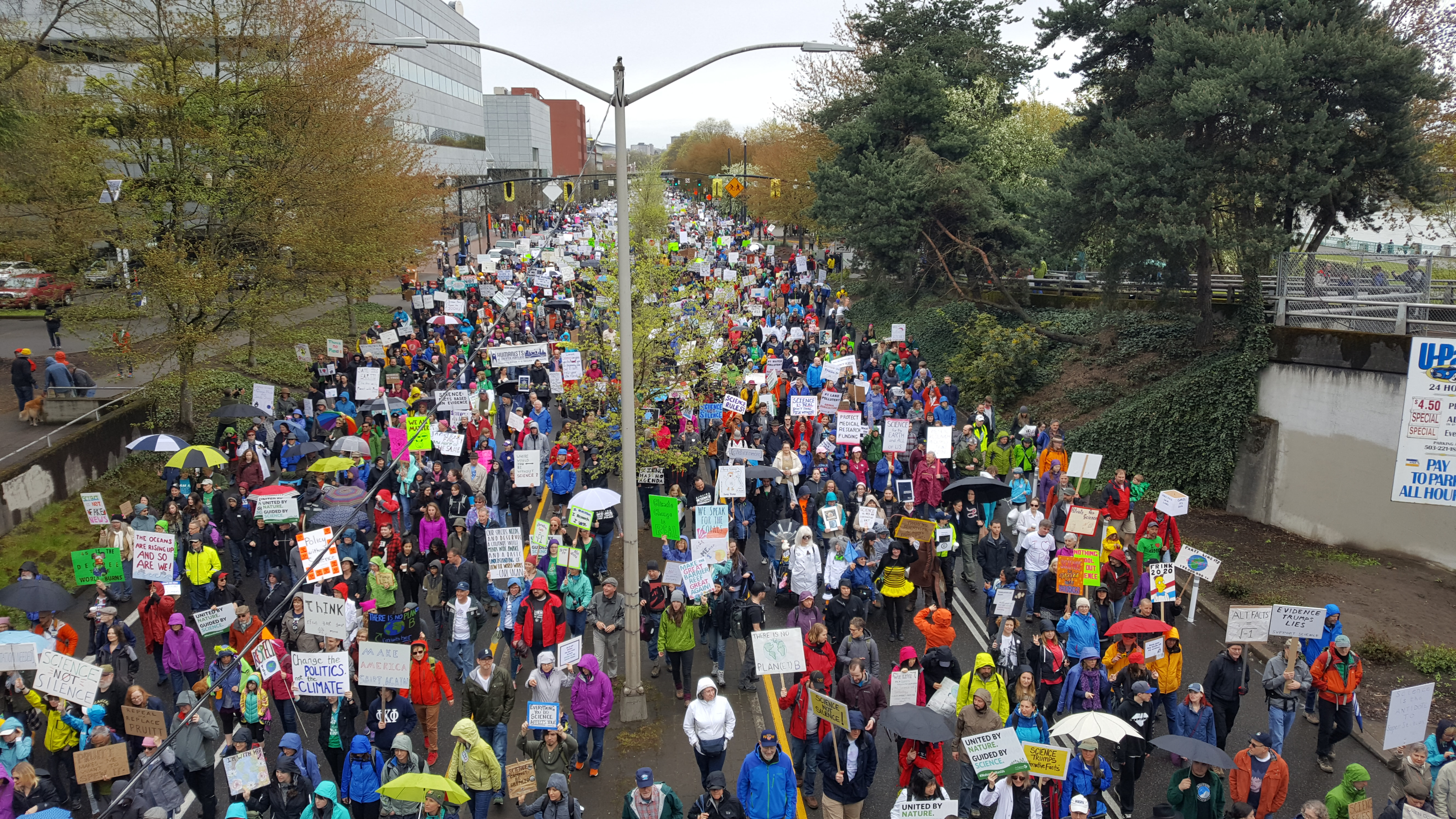 March for Science, PDX, 2017